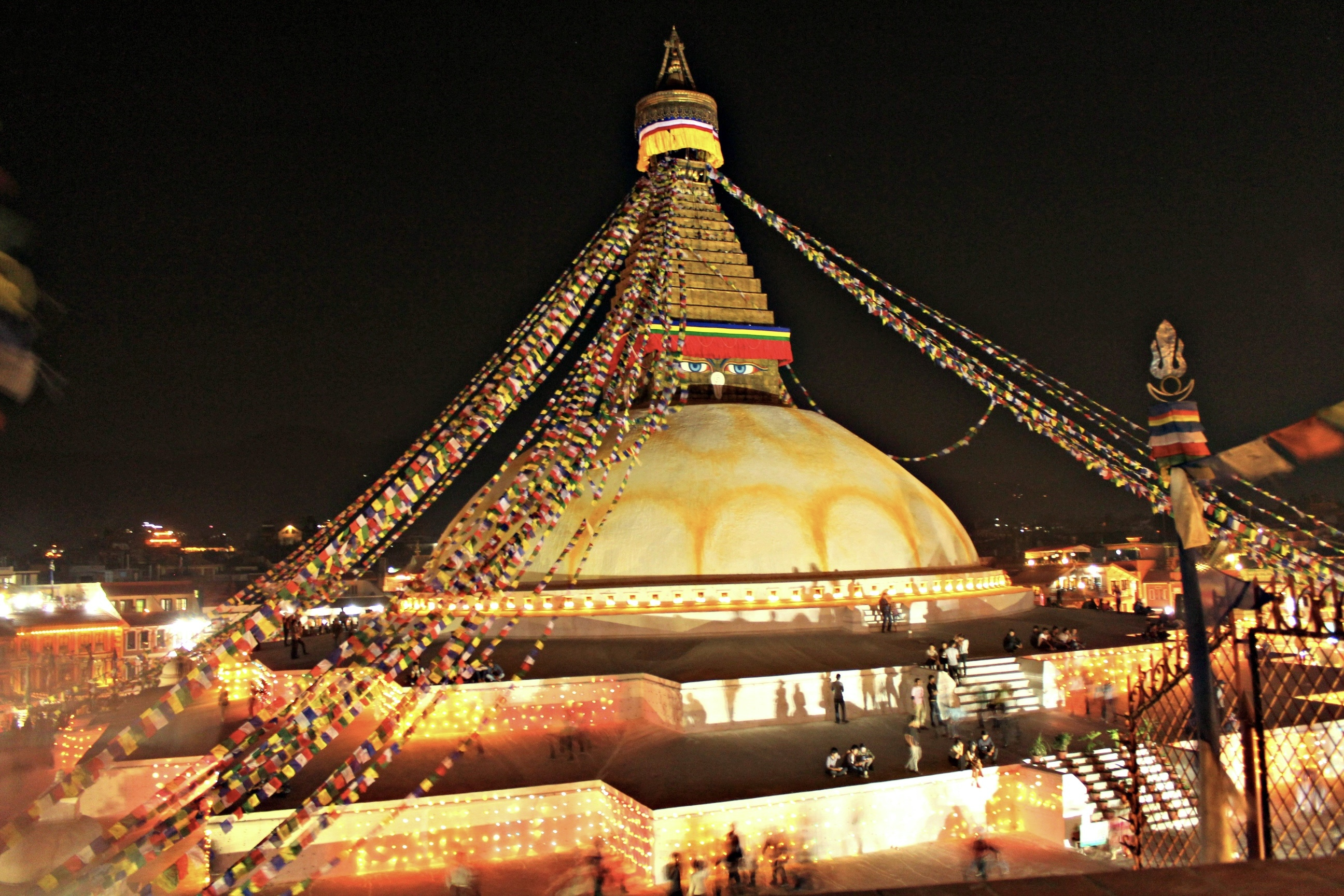 Bouddhanath Stupa in Kathmandu illuminates to celebrate the Budhha Jayanti